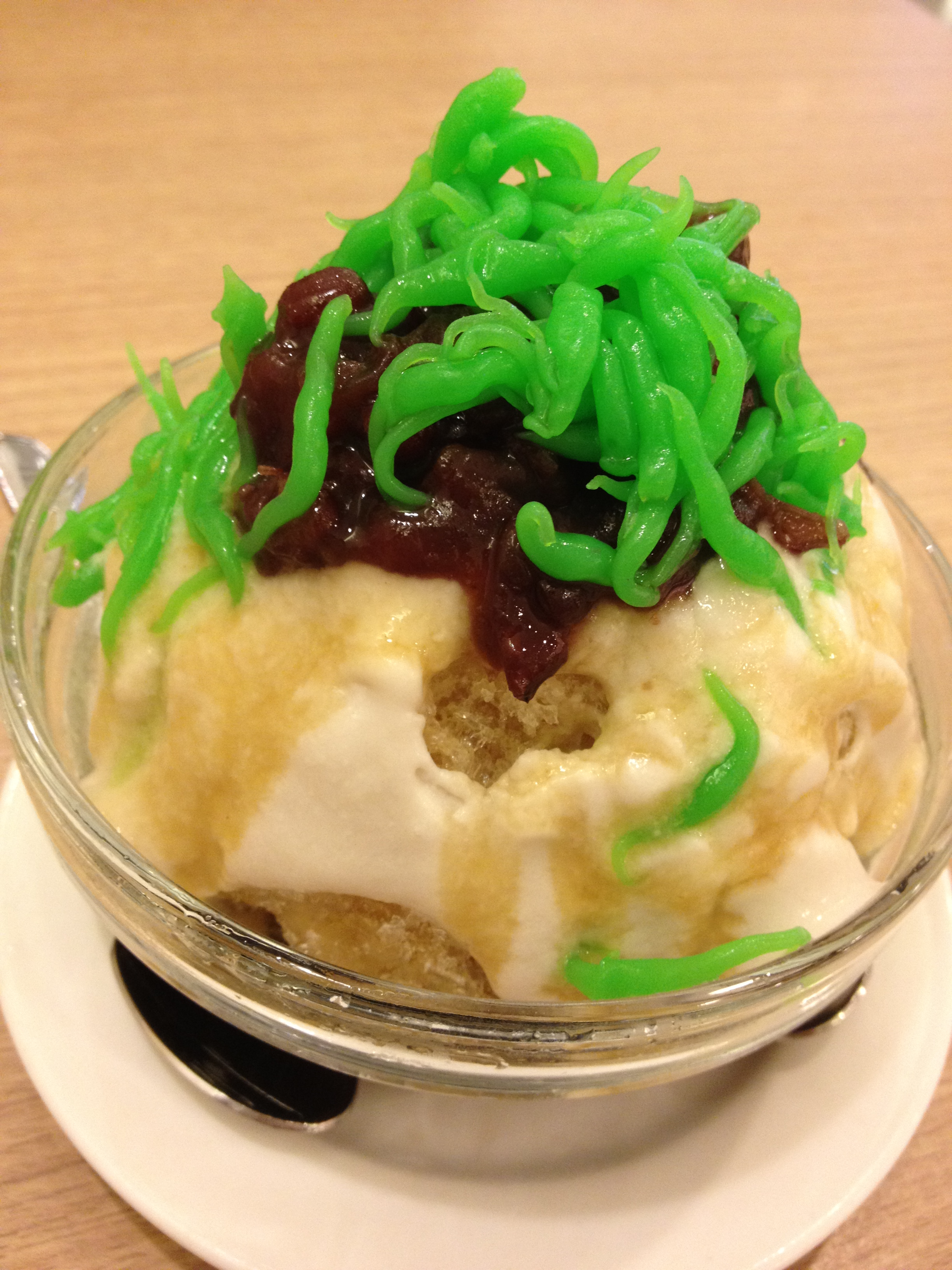 Cendol, or Chendol is a traditional dessert from Malaysia and Singapore made from shaved ice, coconut milk, starch noodles and palm sugar.